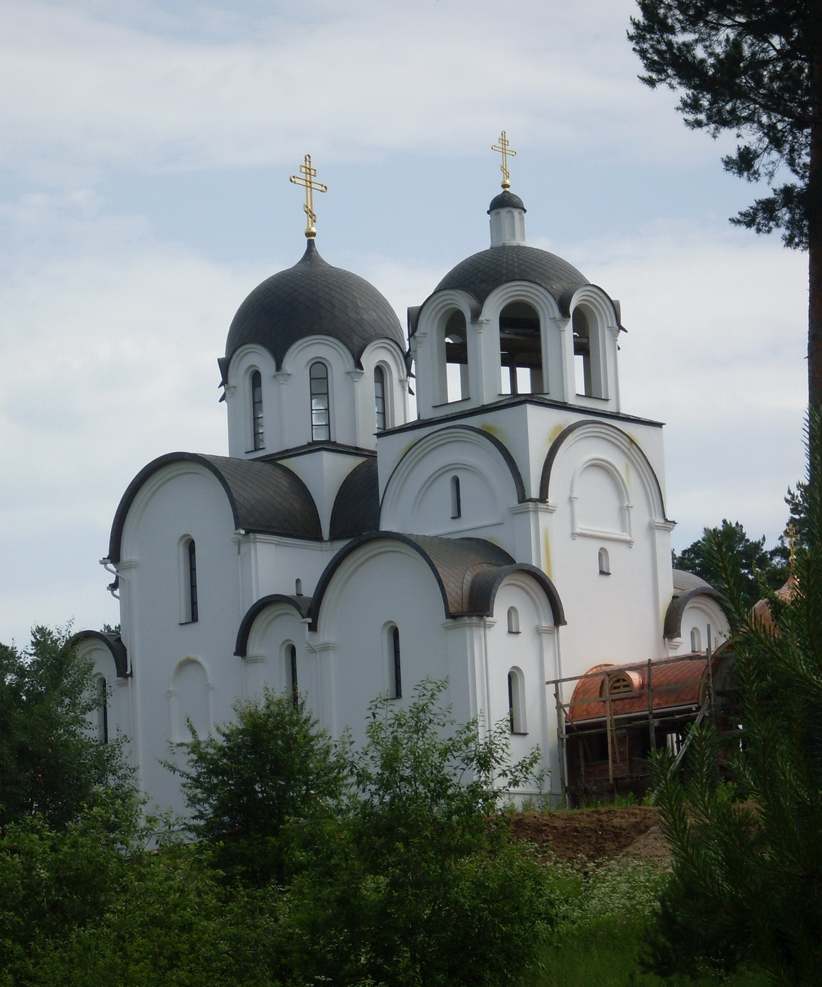 Saint Pantaleon church in Machulischi (Russian Orthodox)